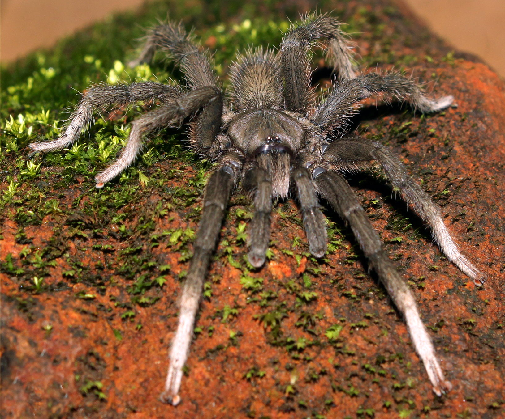 Male Neoheterophrictus smithi